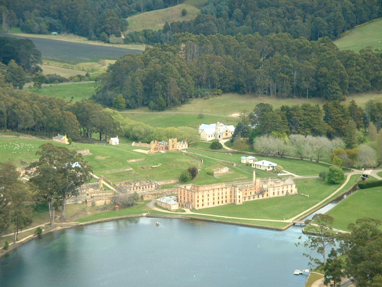 View of Port Arthur prison Tasmania. Taken from seaplane.